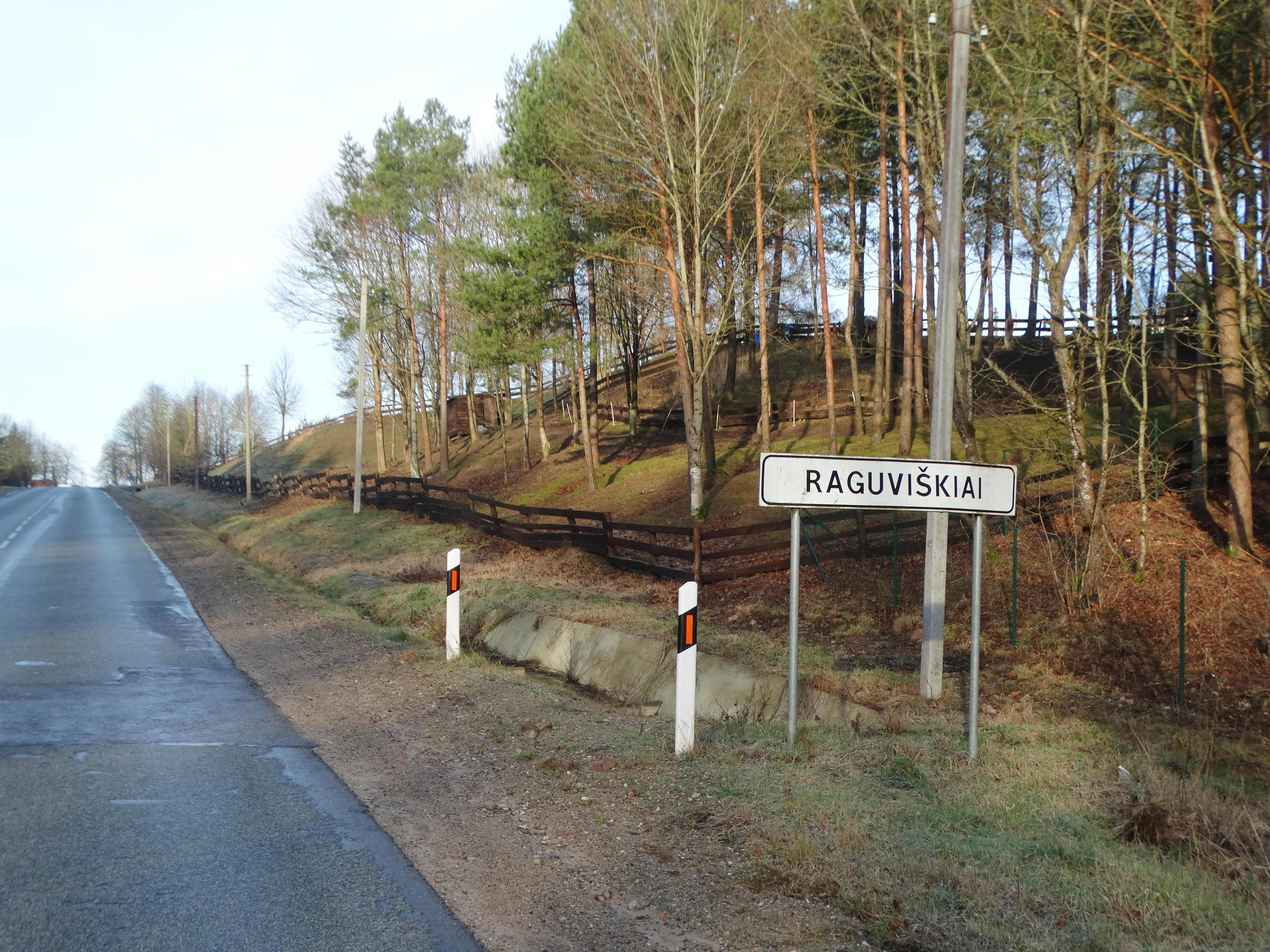 Raguviškiai, Kretinga District, Lithuania